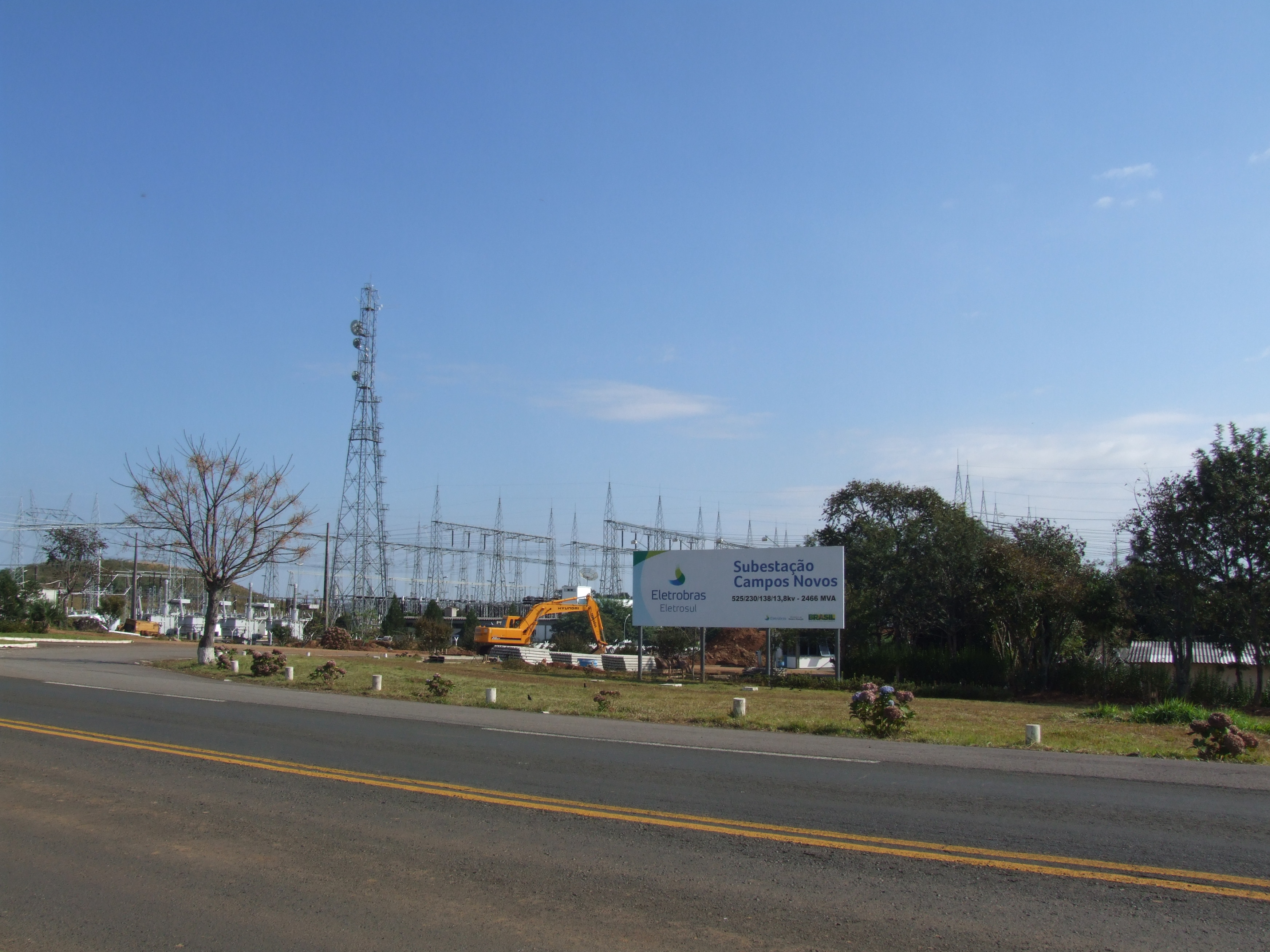 Eletrobrás Substation in Campos Novos, Santa Catarina, Brazil